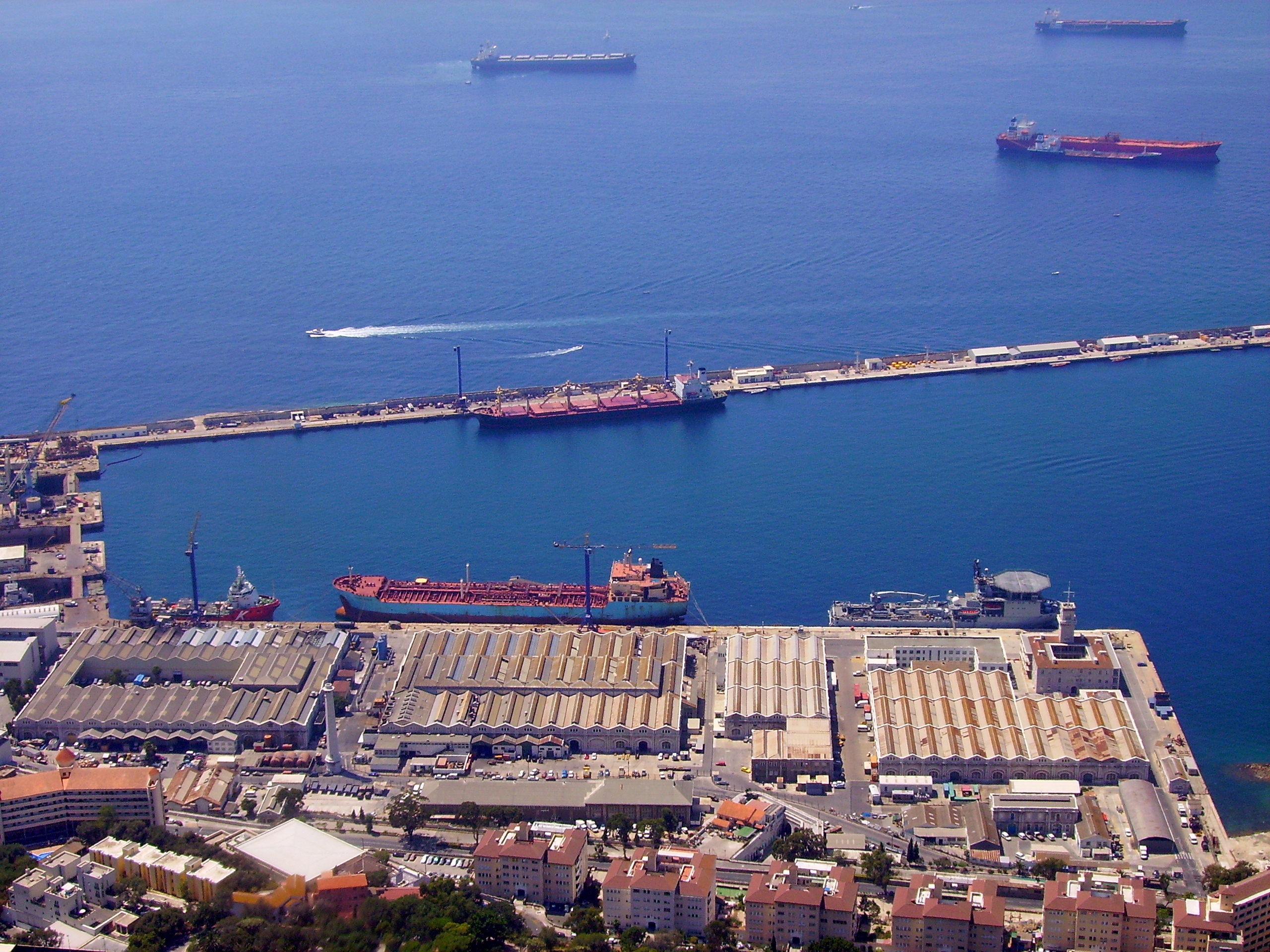 Gibraltar Harbour. South Mole and Dockyart.